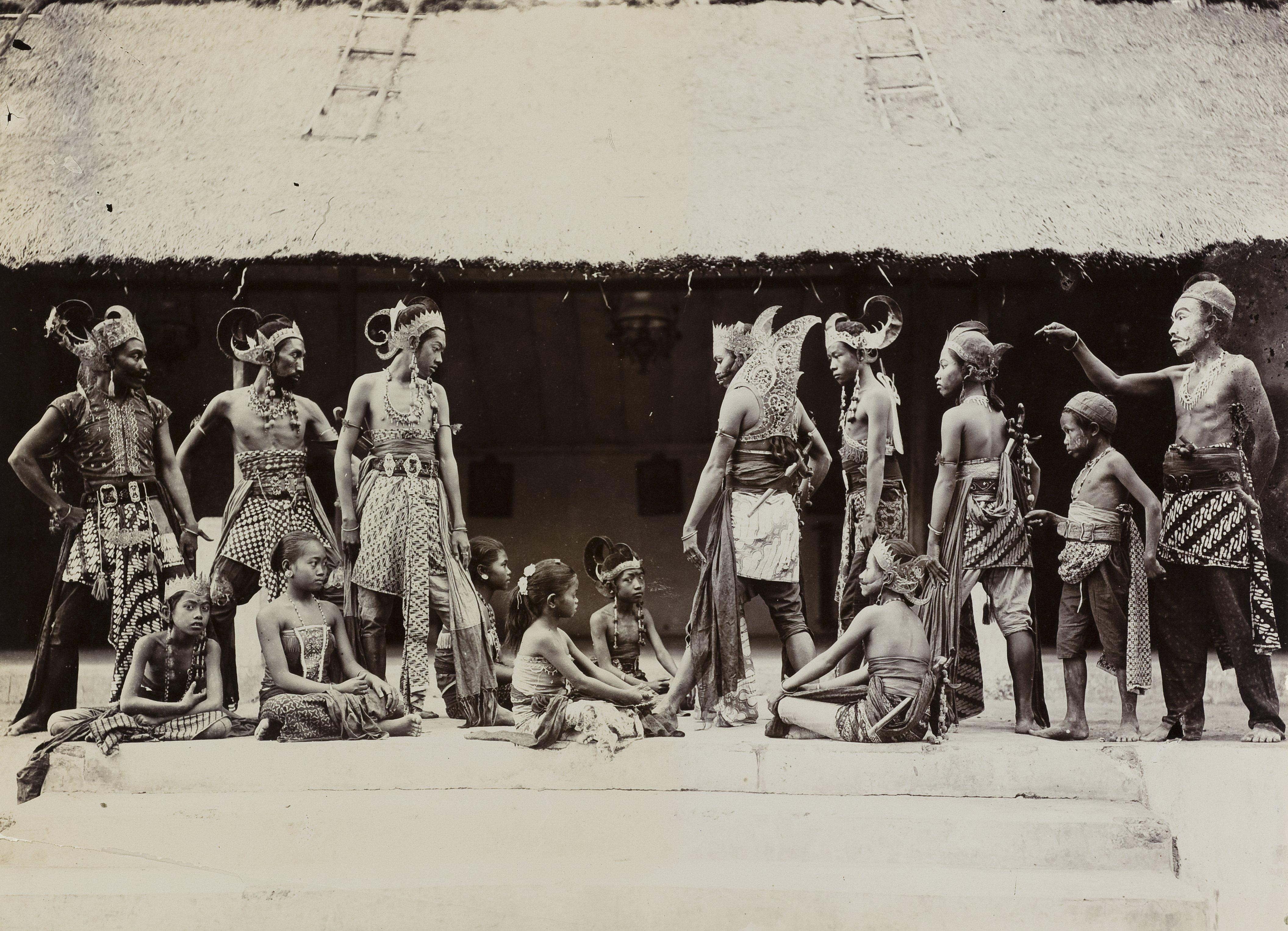 Wayang wong-performance, presumably at Yogyakarta